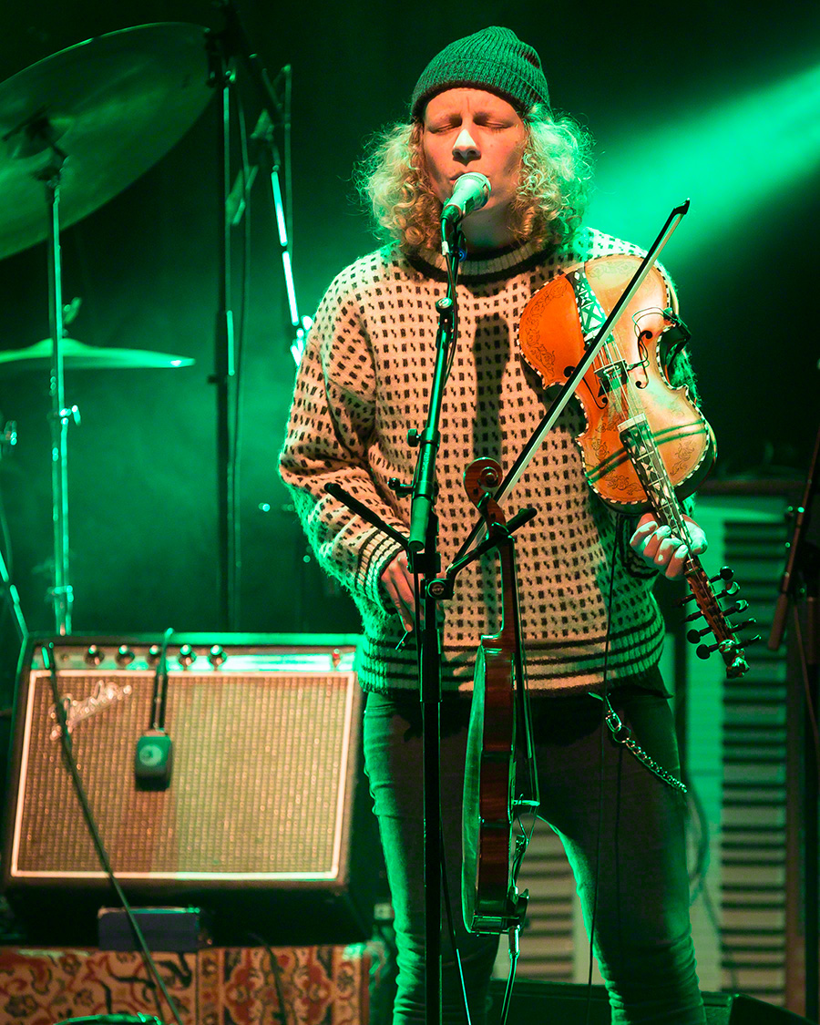 'Valkyrien Allstars' is performing at Cosmopolite in Oslo. Band members: Tuva Syvertsen (violin, Hardanger fiddle, vocal), Erik Sollid (violin, Hardanger fiddle, mandolin, vocal), Magnus Larsen (double bass), Martin Langlie (drums).